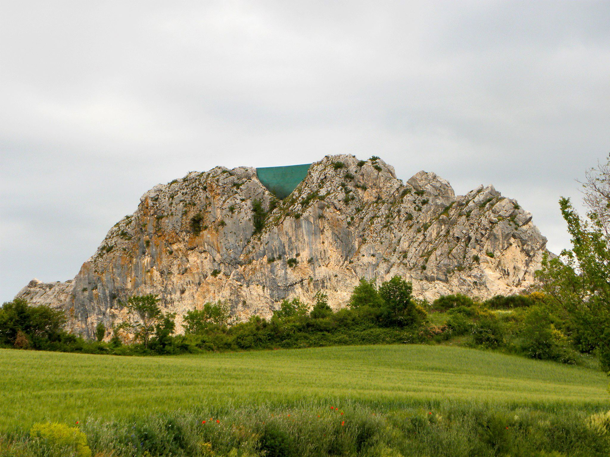 The big rock called "La Morgia" or "the lion" by locals.